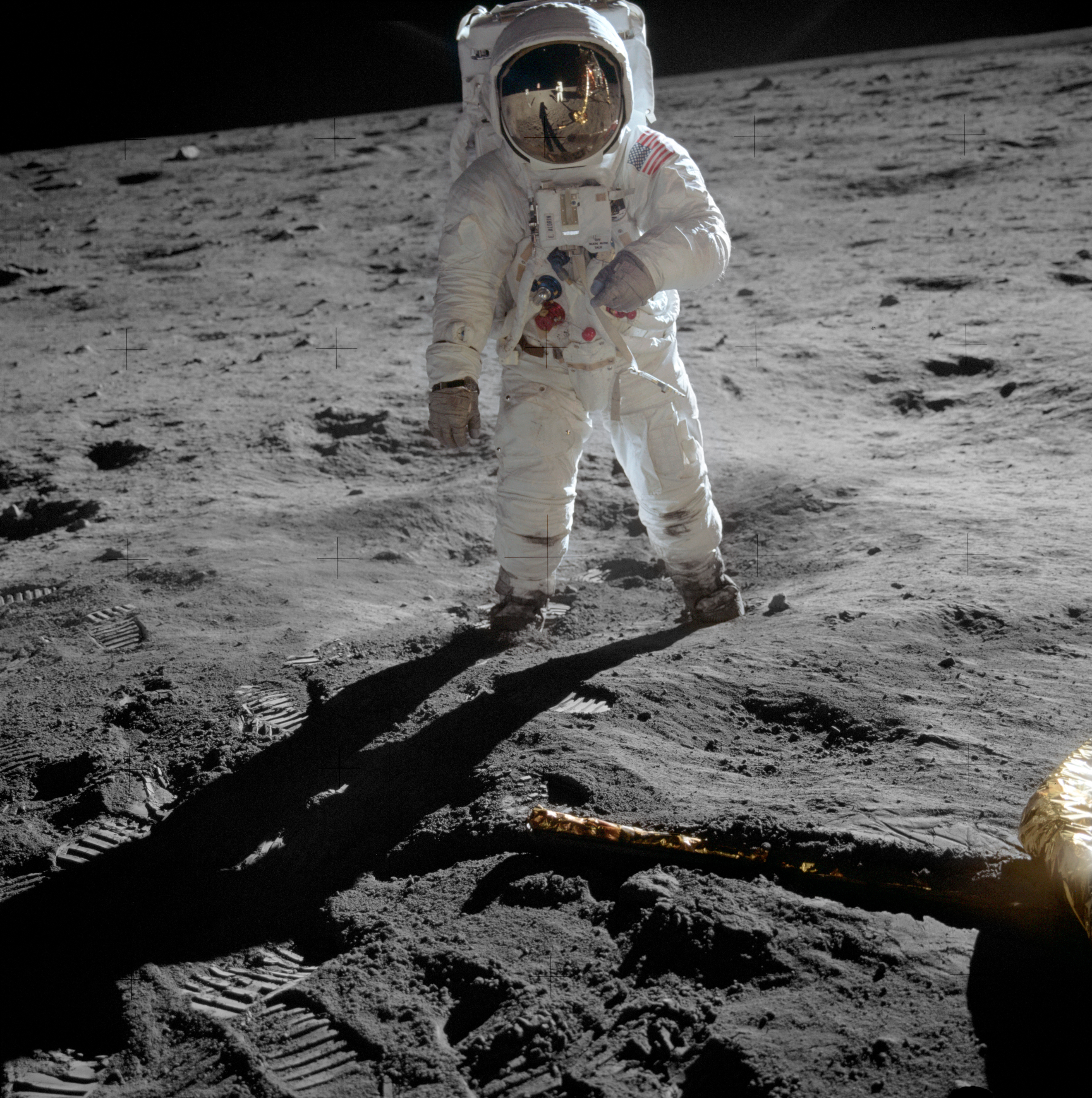 Short description: Astronaut Buzz Aldrin on the moon Full description: Astronaut Buzz Aldrin, lunar module pilot, stands on the surface of the moon near the leg of the lunar module, Eagle, during the Apollo 11 moonwalk. Astronaut Neil Armstrong, mission commander, took this photograph with a 70mm lunar surface camera. While Armstrong and Aldrin descended in the lunar module to explore the Sea of Tranquility, astronaut Michael Collins, command module pilot, remained in lunar orbit with the Command and Service Module, Columbia. This is the actual photograph as exposed on the moon by Armstrong. He held the camera slightly rotated so that the camera frame did not include the top of Aldrin's portable life support system ("backpack"). A communications antenna mounted on top of the backpack is also cut off in this picture. When the image was released to the public, it was rotated clockwise to restore the astronaut to vertical for a more harmonious composition, and a black area was added above his head to recreate the missing black lunar "sky". The edited version is the one most commonly reproduced and known to the public, but the original version, above, is the authentic exposure. A full explanation with illustrations can be seen at the Apollo Lunar Surface Journal.